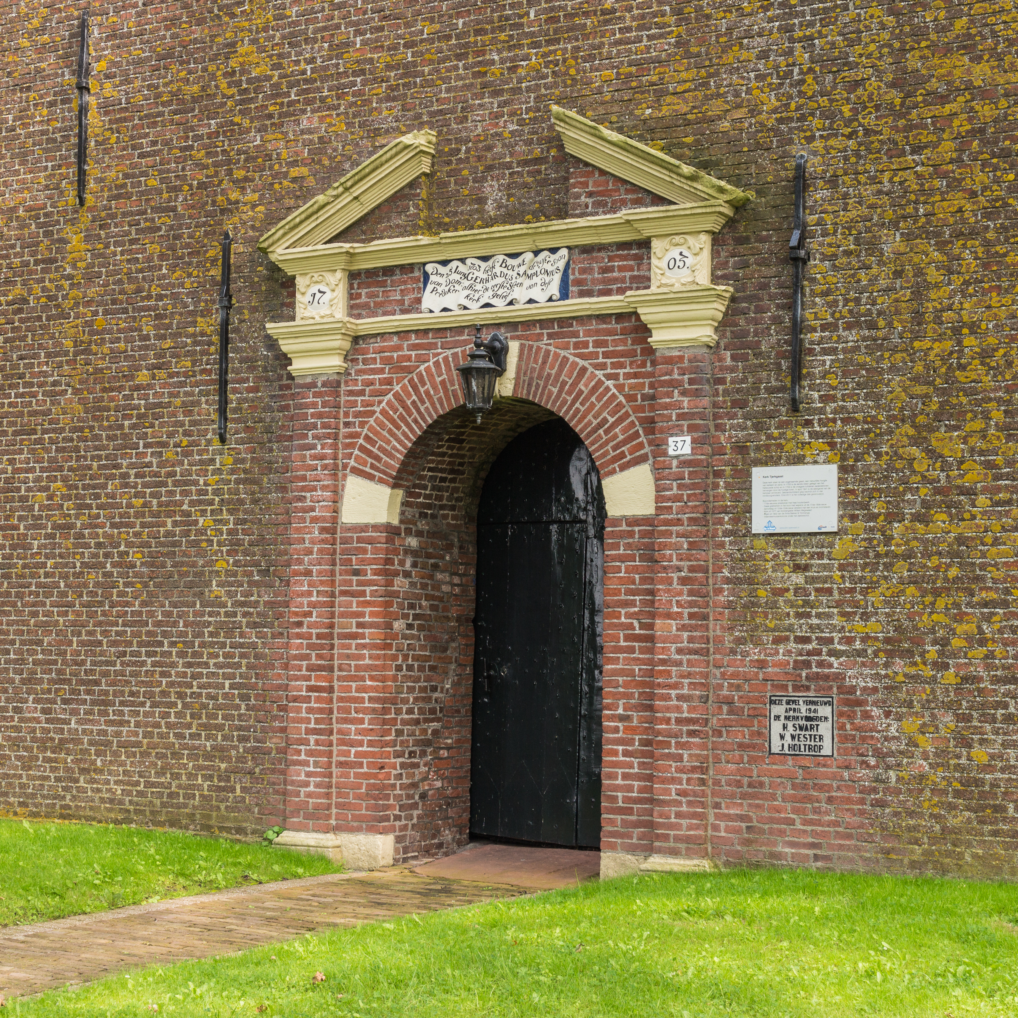 Tjerkgaast. Church of Tjerkgaast Gaestdyk 37 (Detail National Monument).